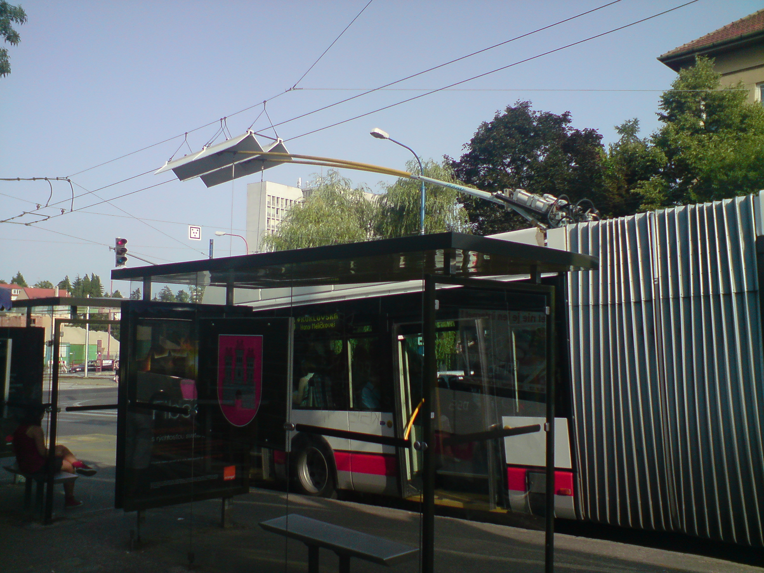 Škoda 25Tr trolleybus with additional diesel engine